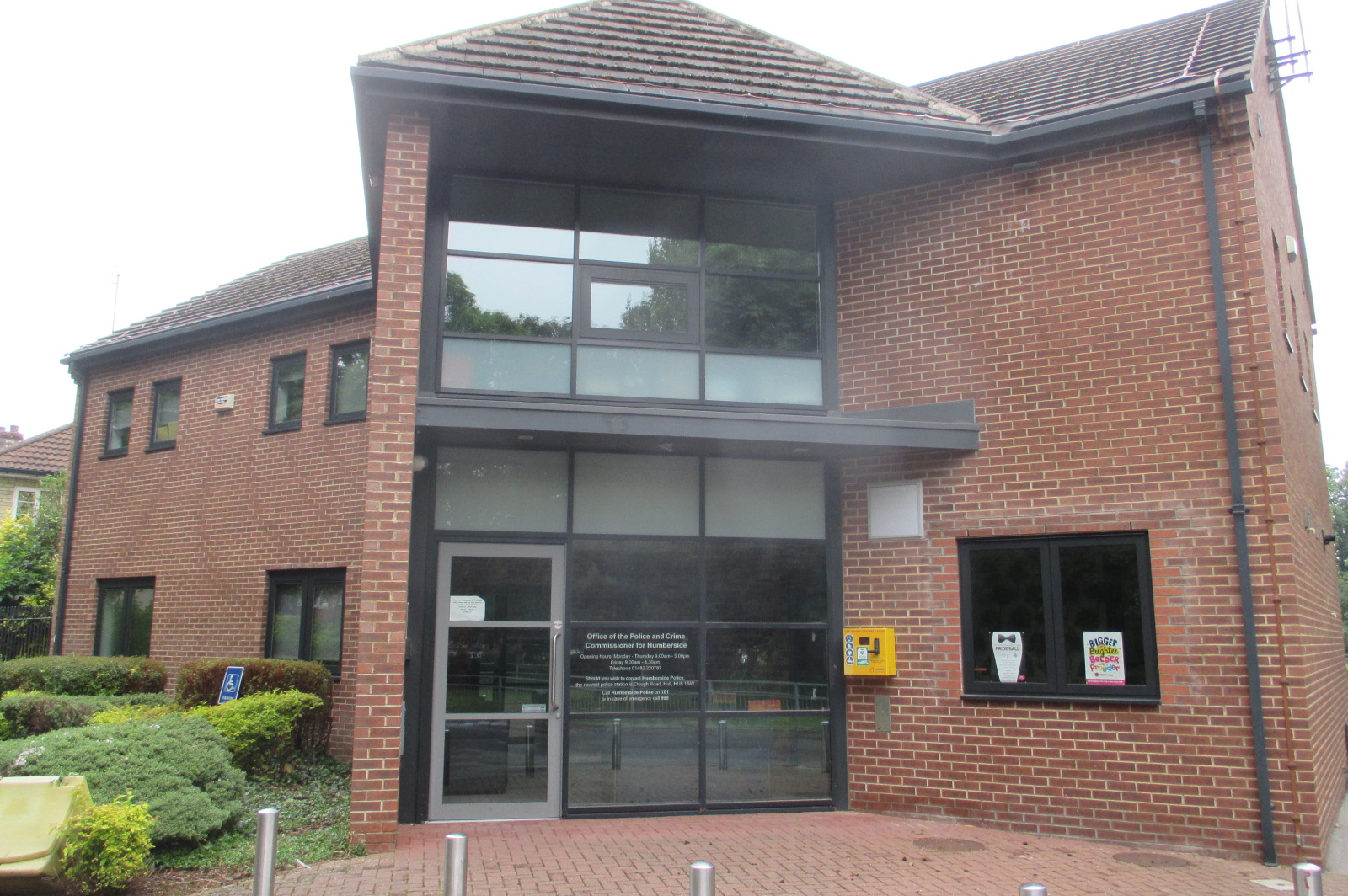 Exterior of the Office of the Police & Crime Commissioner for Humberside at The Lawns, Cottingham